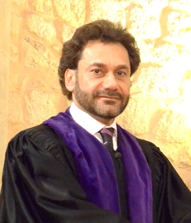 Rev.Haroutioun Selimian